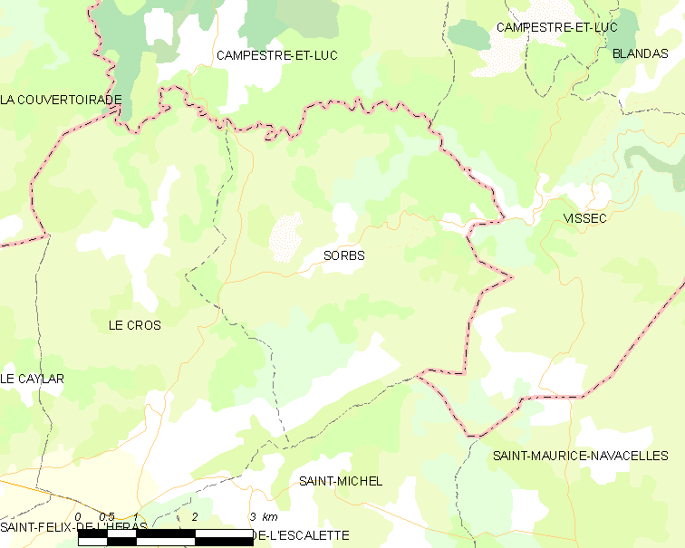 Map commune FR insee code 34303.png - Sorbs